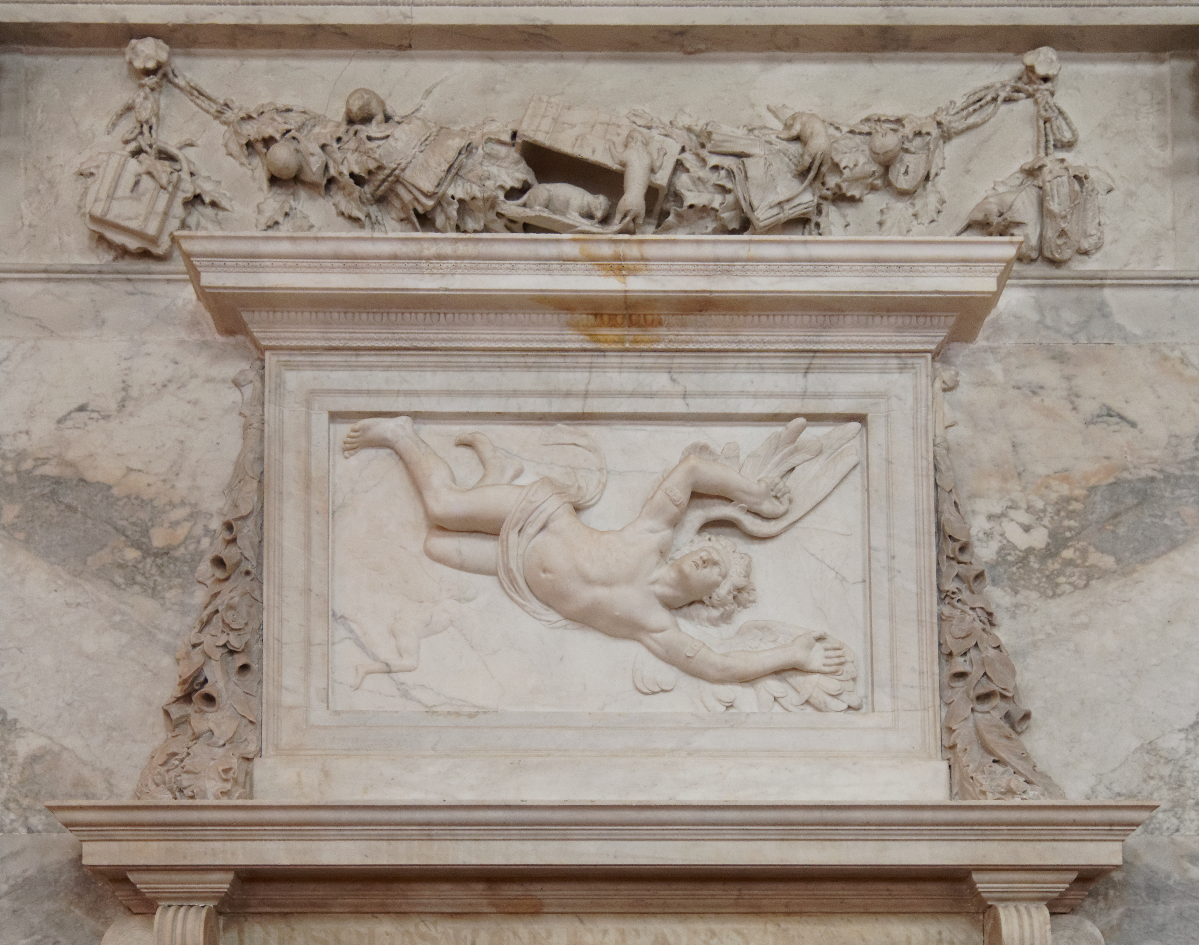 Relief of Icarus in Amsterdam Royal Palace.